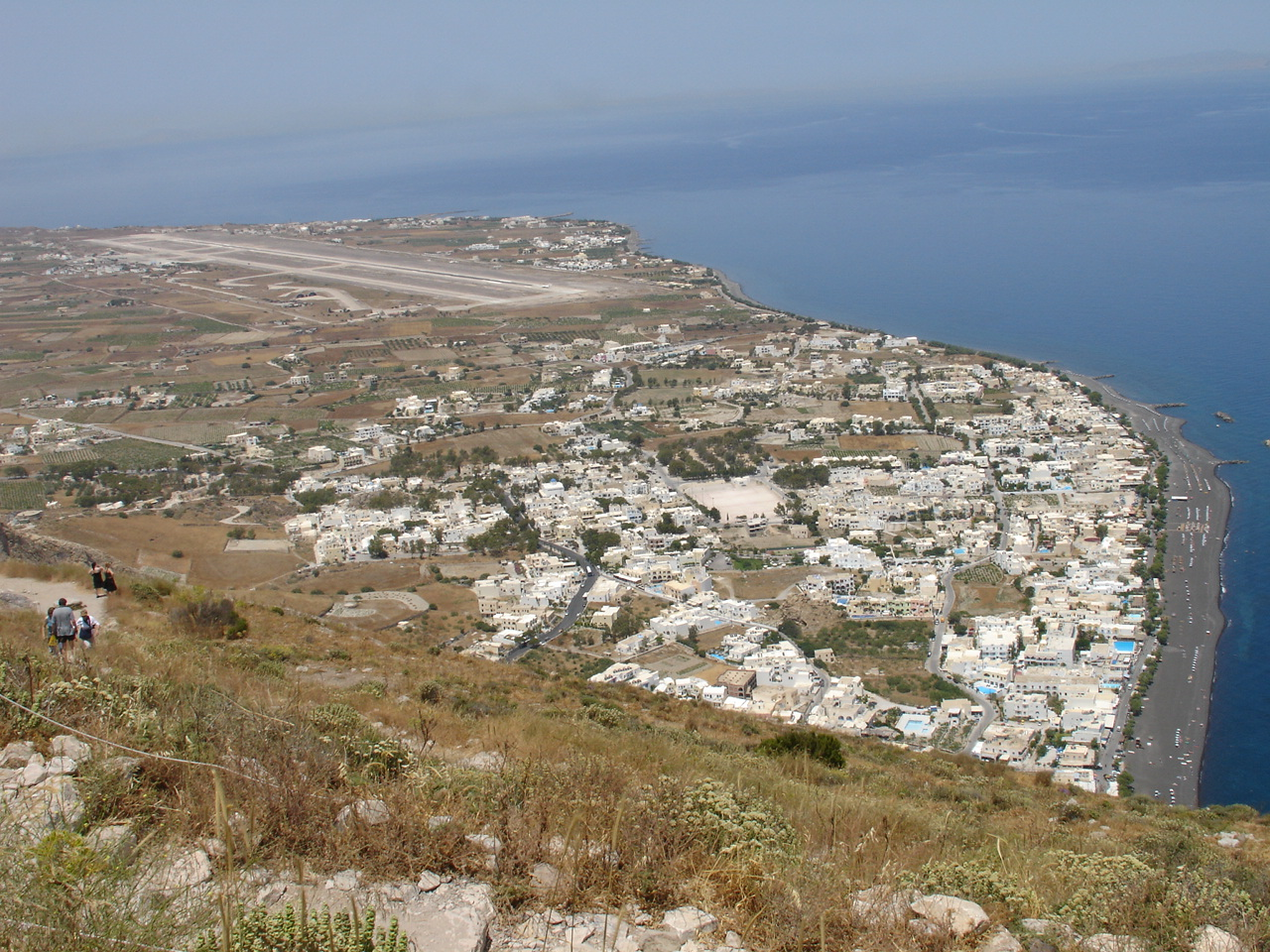 Kamari town and Fira airport as seen from the top of Ancient Thira, Santorini, Greece.